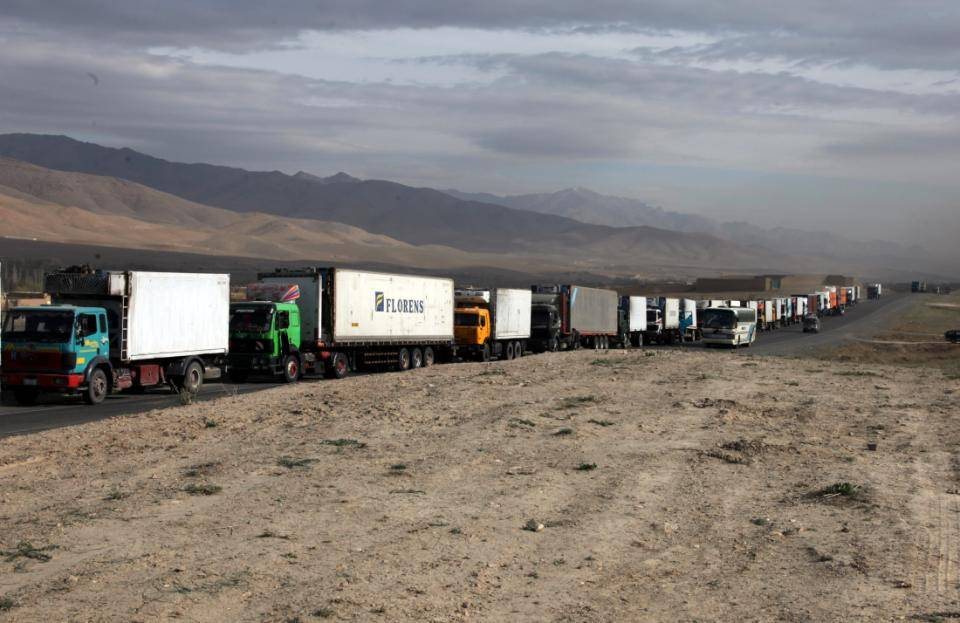 A convoy of trucks driven by Afghans wait patiently on highway 1 for elements of the U.S. military to clear the dangerous stretch of road ahead of any possible Imrovised Explosive Devices and enemy fighters in Sayed-Abad District, Wardak Province, Afghanistan, 28 March 2010. (U.S. Army photo by Sgt Russell Gilchrest\Released)